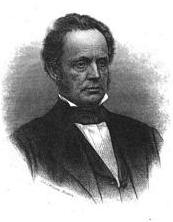 Tappan Wentworth, US Representative from Massachusetts